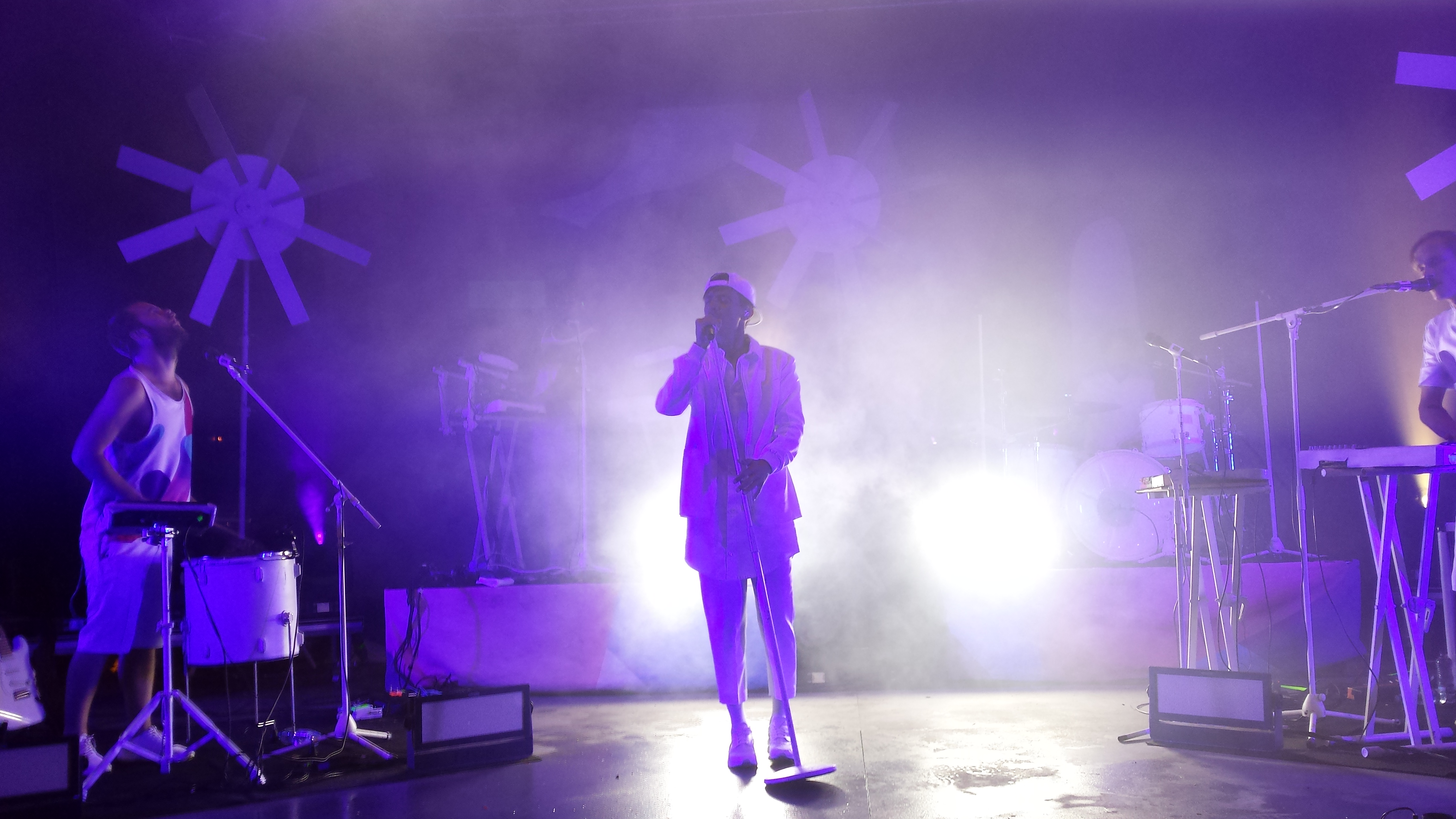 Swedish performer Daniel Adams-Ray during a show in Mellerud 2014.